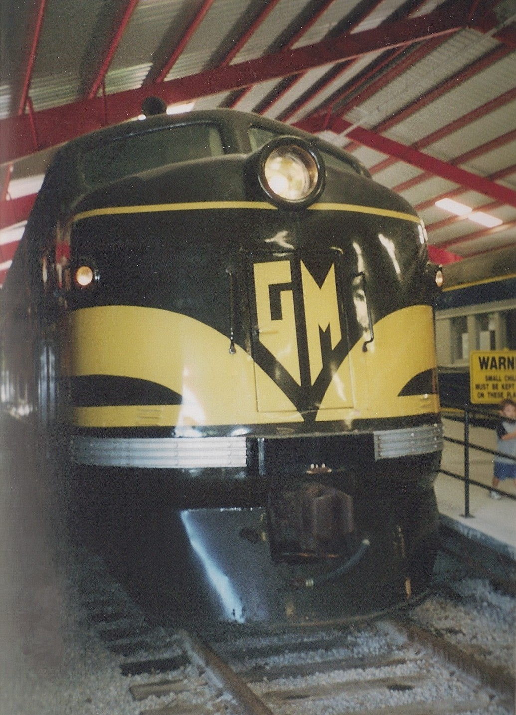 EMD FT #103 in General Motors livery at the Museum of Transportation in St. Louis County, Missouri (United States).